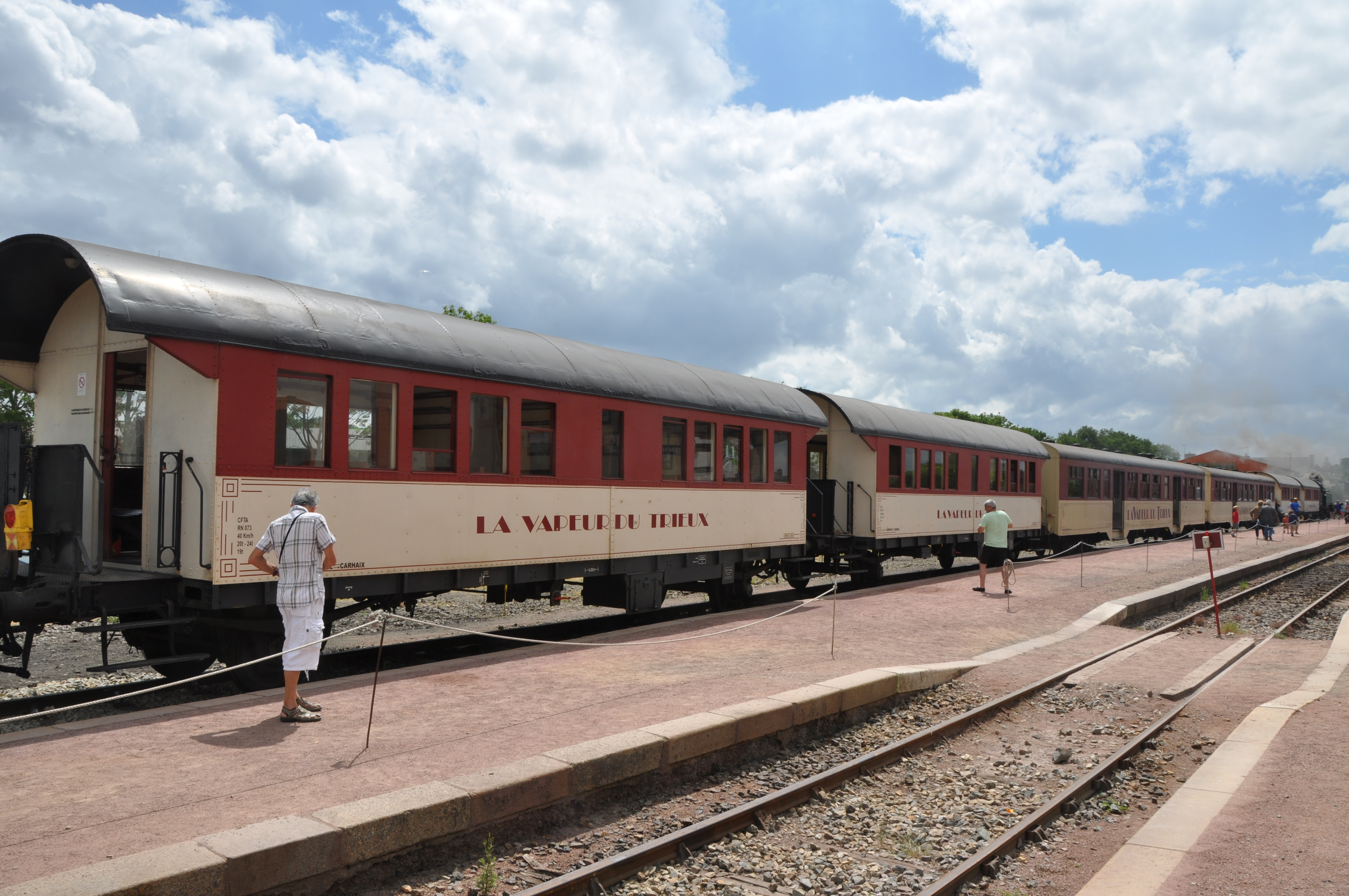 La Vapeur du Trieux, touristic train in Paimpol (France, Brittany)